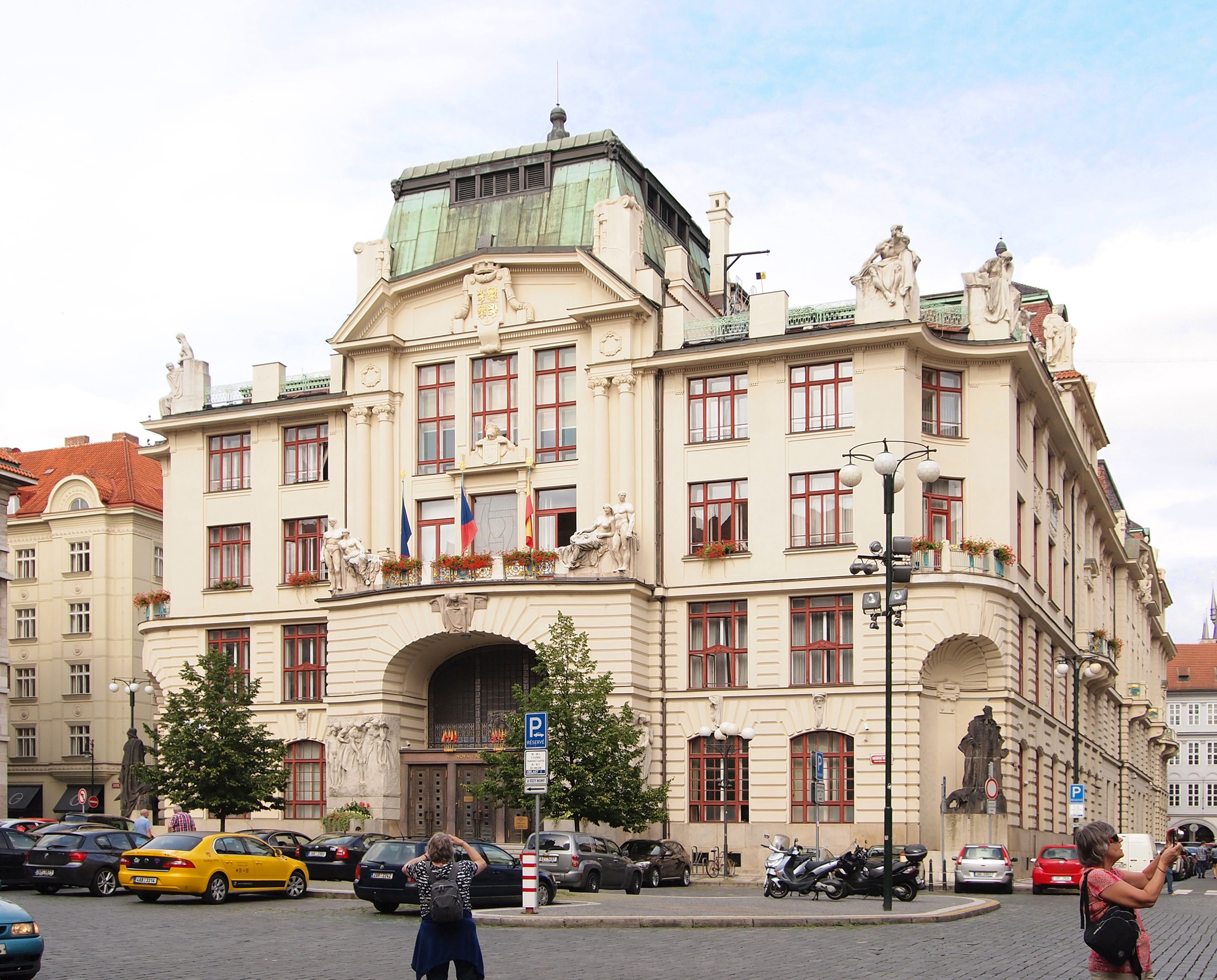 Nová radnice in Prague. This photograph was taken with an Olympus E-PL1